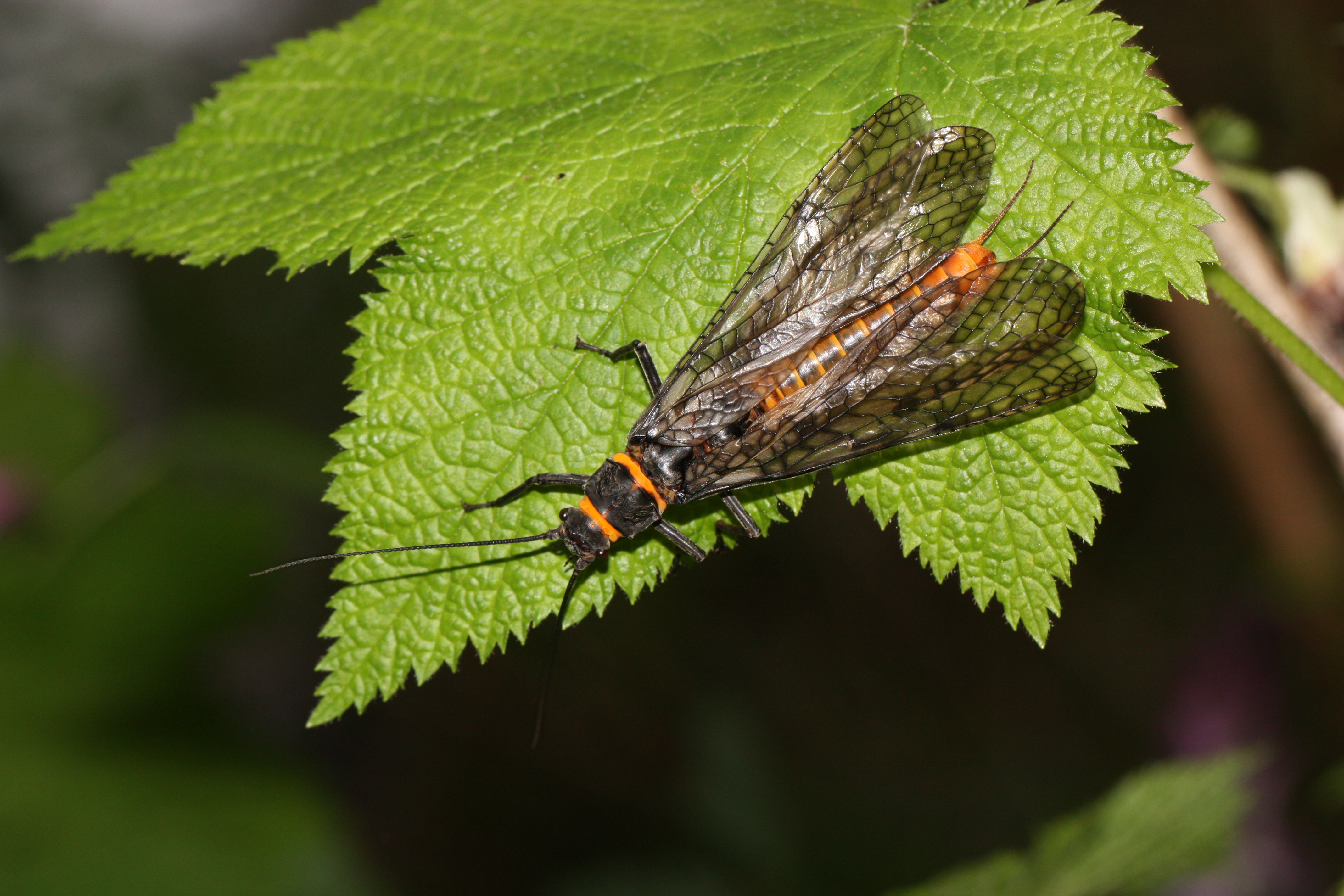 Salmonfly on Thimbleberry (Rubus parviflorus)